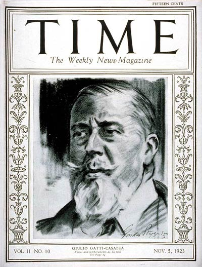 TIME Magazine Cover Featuring Giulio Gatti-Casazza (5 Nov 1923)